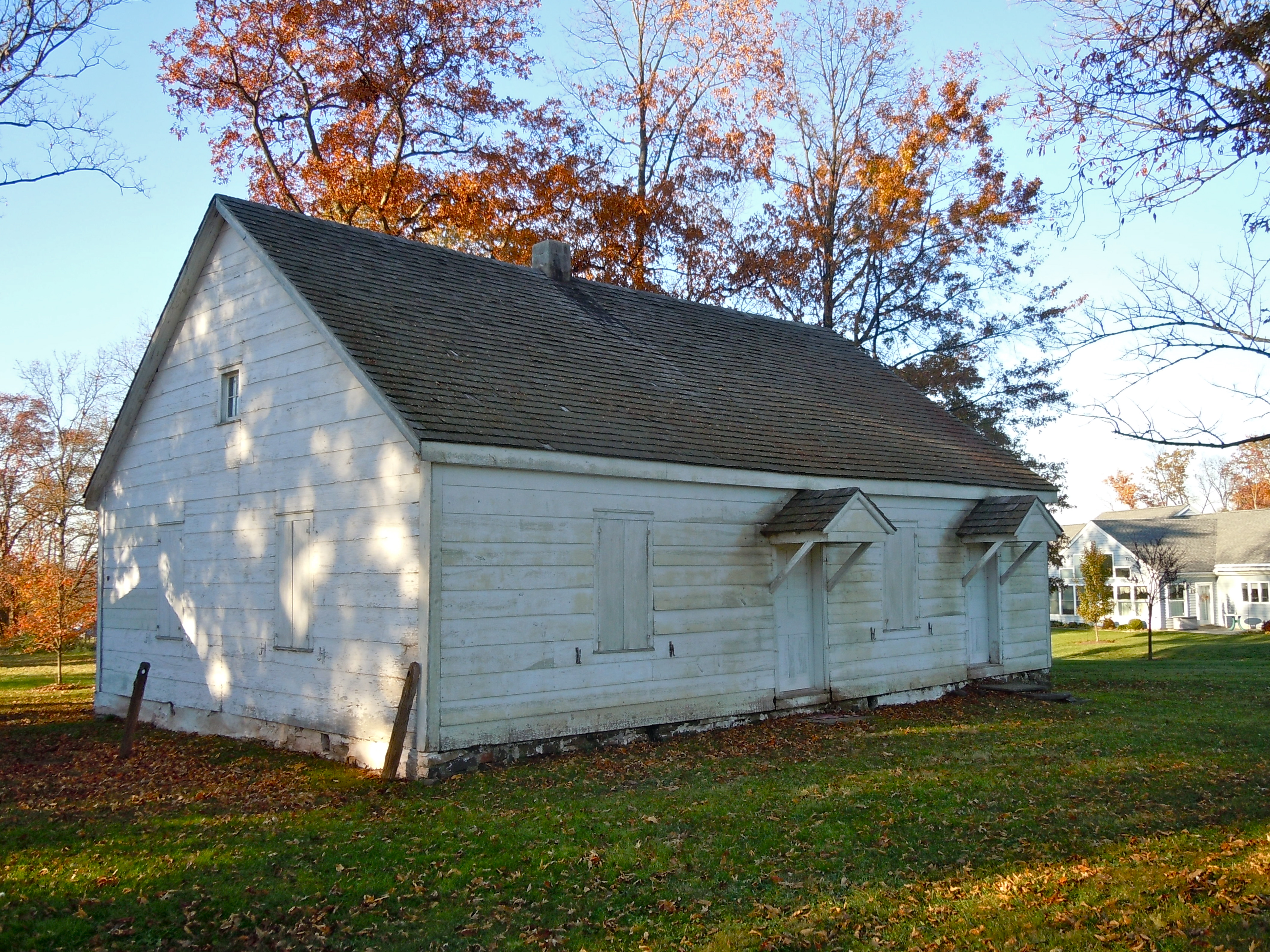 Klein Meetinghouse on the NRHP since April 13, 1973. Near Maple Avenue (behind the YMCA) in Harleysville, Montgomery County, Pennsylvania. Brethren pioneer Peter Becker is buried there.